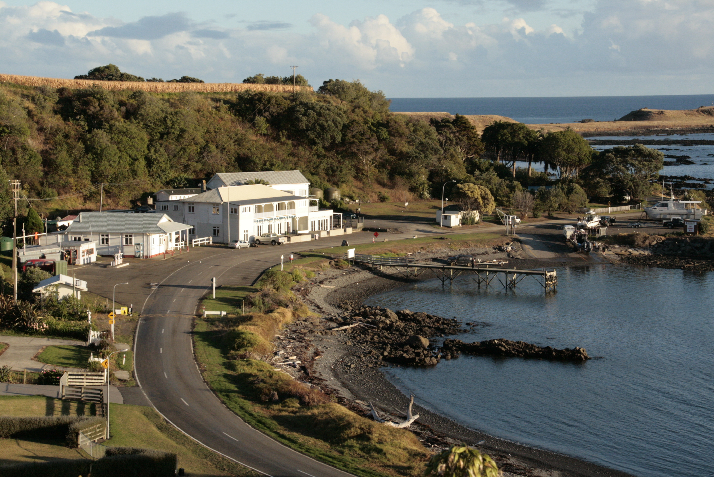 Waihau Bay launching area and Hotel